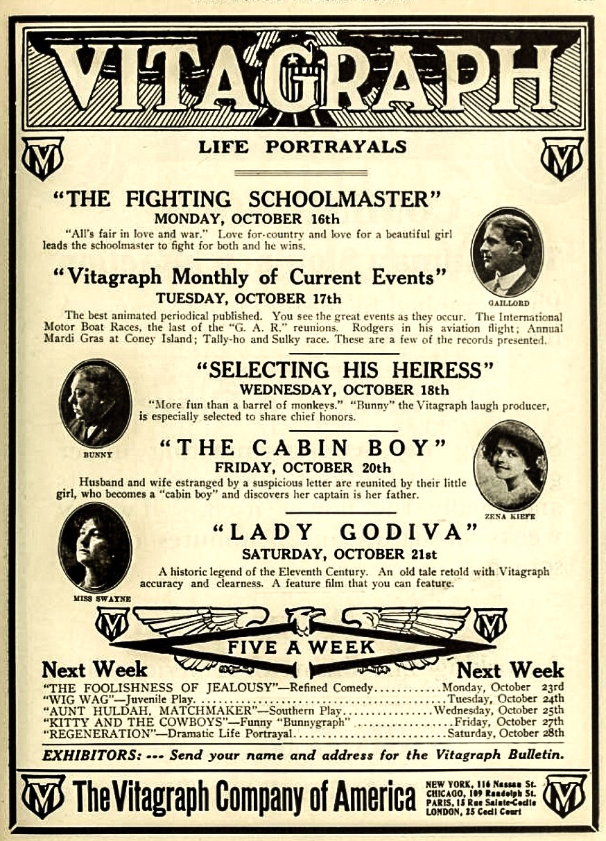 Advertisement for 10 films with bold heading "VITAGRAPH", published in The Moving Picture World (New York, N.Y.), October 21, 1911, p. 181; the films were released by The Vitagraph Company of America (Brooklyn, New York) between October 16-28, 1911.